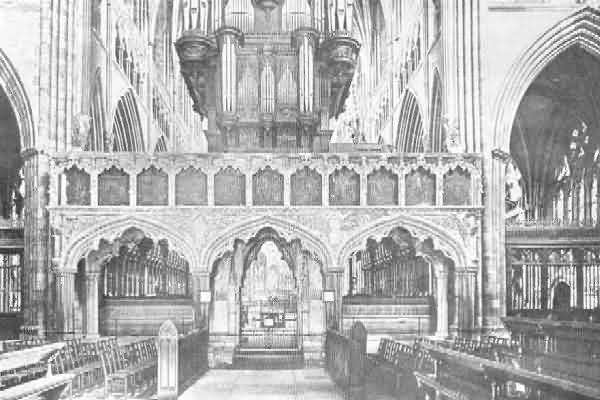 Author: John Stabb, photographer (1865-1917) Original publication: Stabb, John Some Old Devon Churches, Their Rood Screens, Pulpits, Fonts, etc (Simpkin, Marshall, Hamilton, Kent, & Co, London, Vol I, 1908) Frontispiece URL: (maintained by Roger Peters)